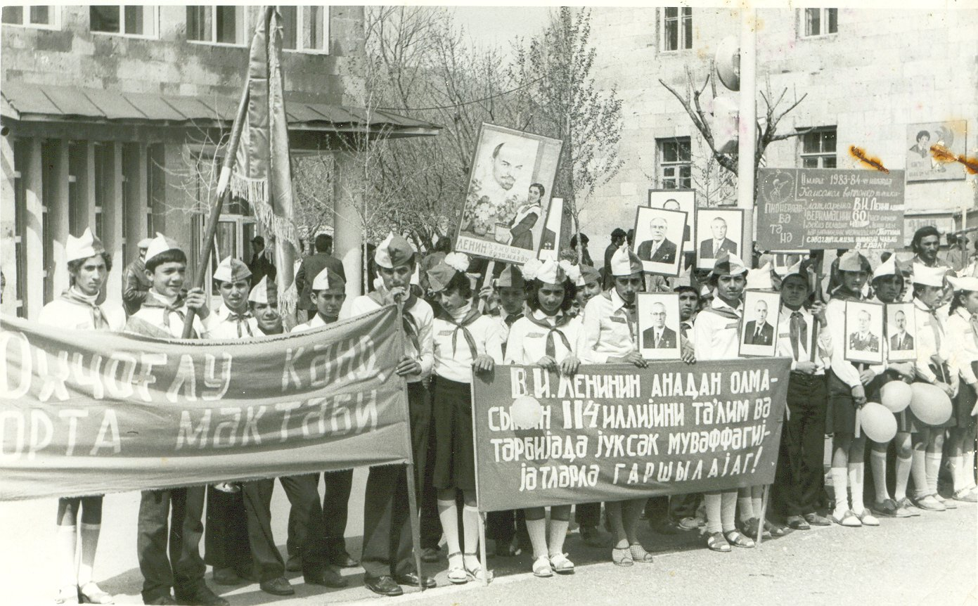 Pioneers of Okchuoglu middle school, 1984